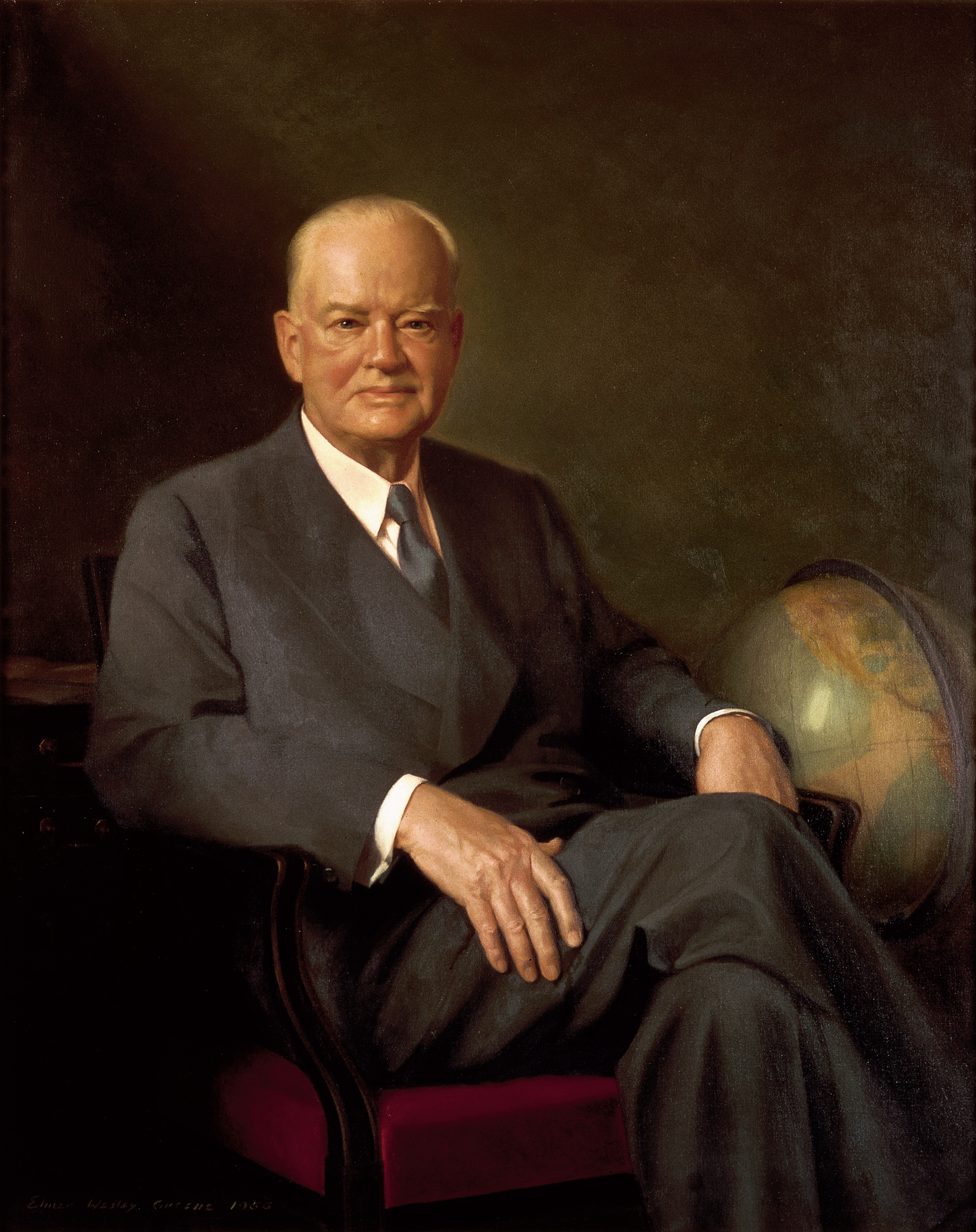 Official Presidential portrait of Herbert Hoover